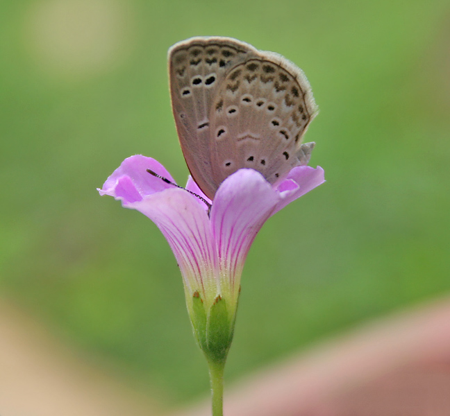 Dark Grass Blue Zizeeria karsandra at Jayanti in Buxa Tiger Reserve in Jalpaiguri district of West Bengal, India.